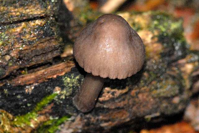 Simocybe sumptuosa from Commanster, Belgian High Ardennes .